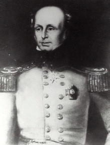 This image shows an oil painting of Sir Richard Bourke, painted before 1900. Under Australian law, all paintings created in Australia before 1955 are in the public domain. This image is in the public domain under both Australian copyright law and US copyright law.